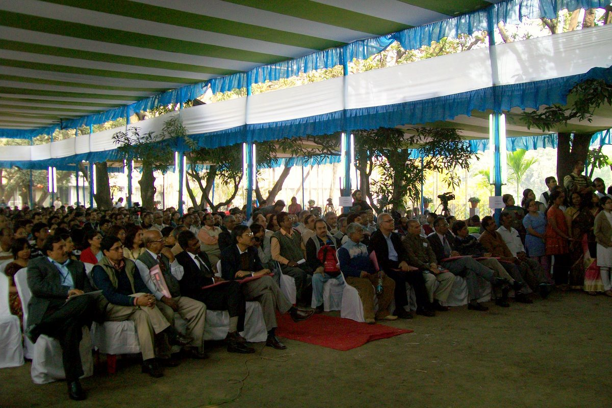 Audience during the Panel discussion In Integration 2011.